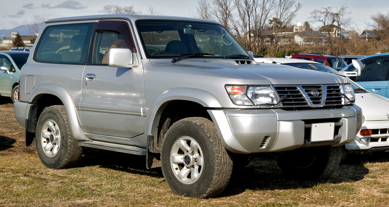 Nissan Safari 2 door hardtop Super Spirit 3.0D (WTY61)